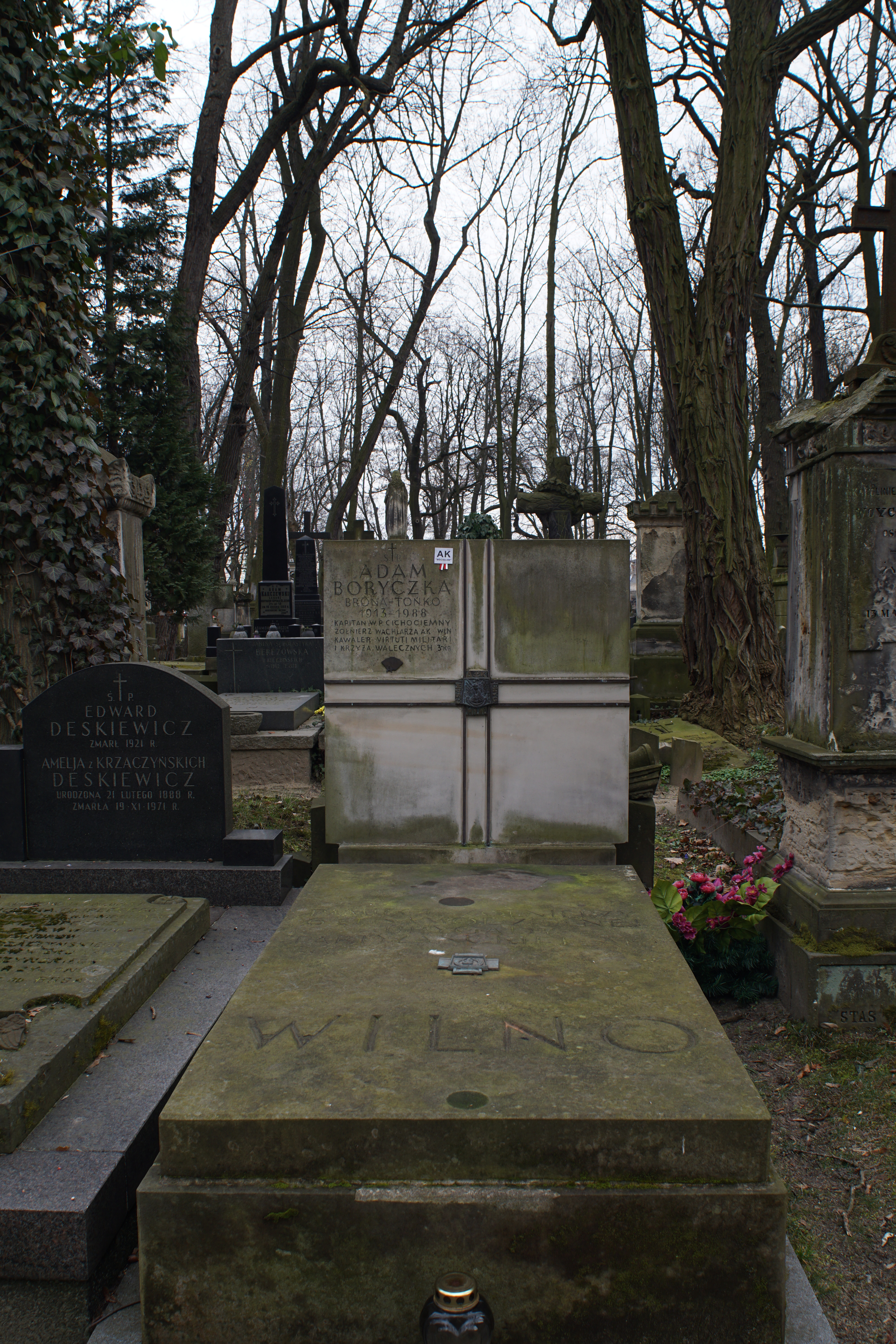 The grave of Adam Boryczka at the Powązki Cemetery (section 4, row 6, grave 11)